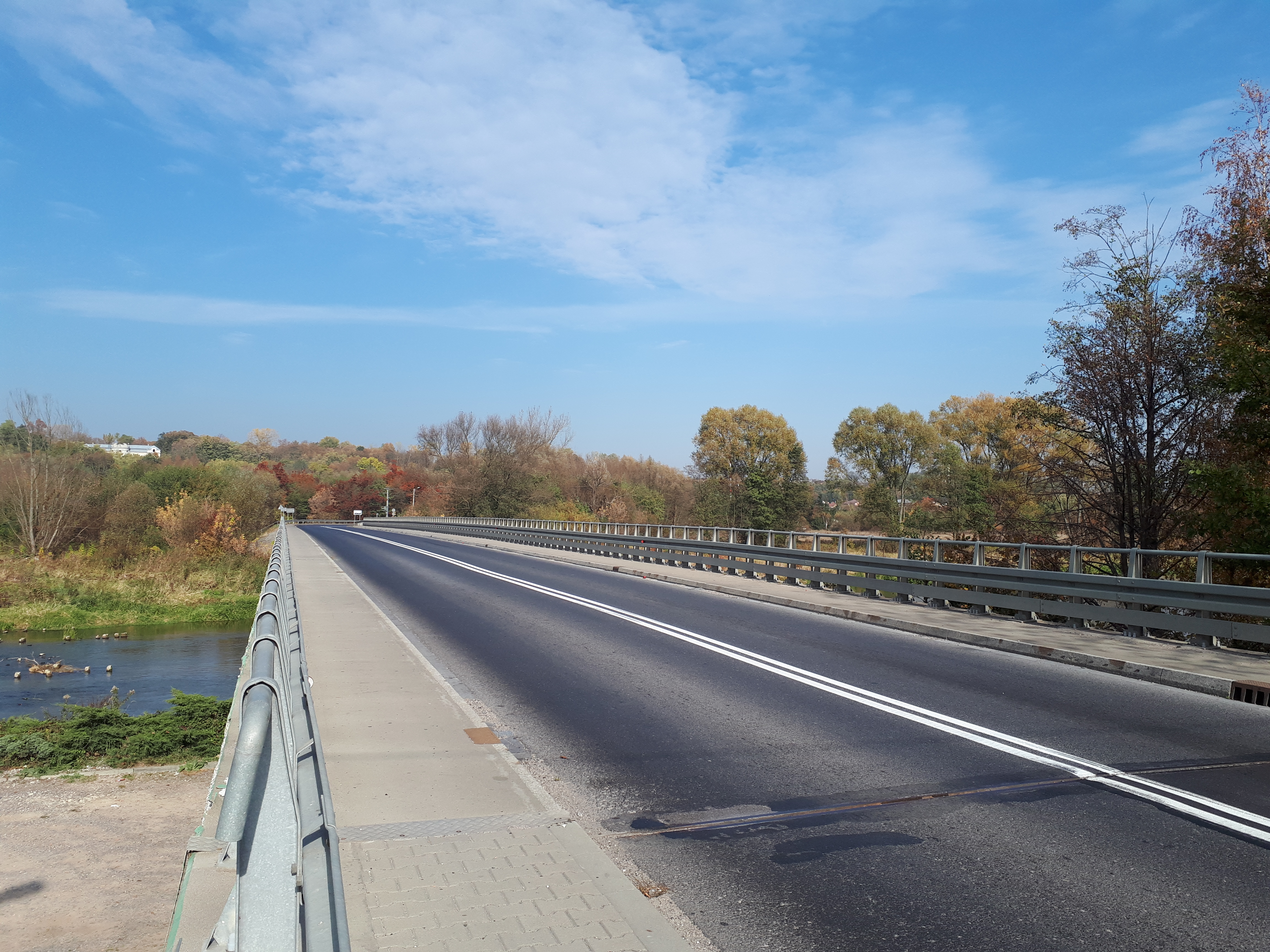 Voivodeship road nr 728 in Nowe Miasto